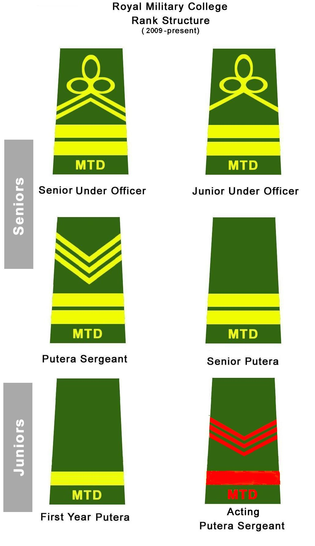 Showing the Rank Structure of RMC Puteras beginning the year 2009 to present.